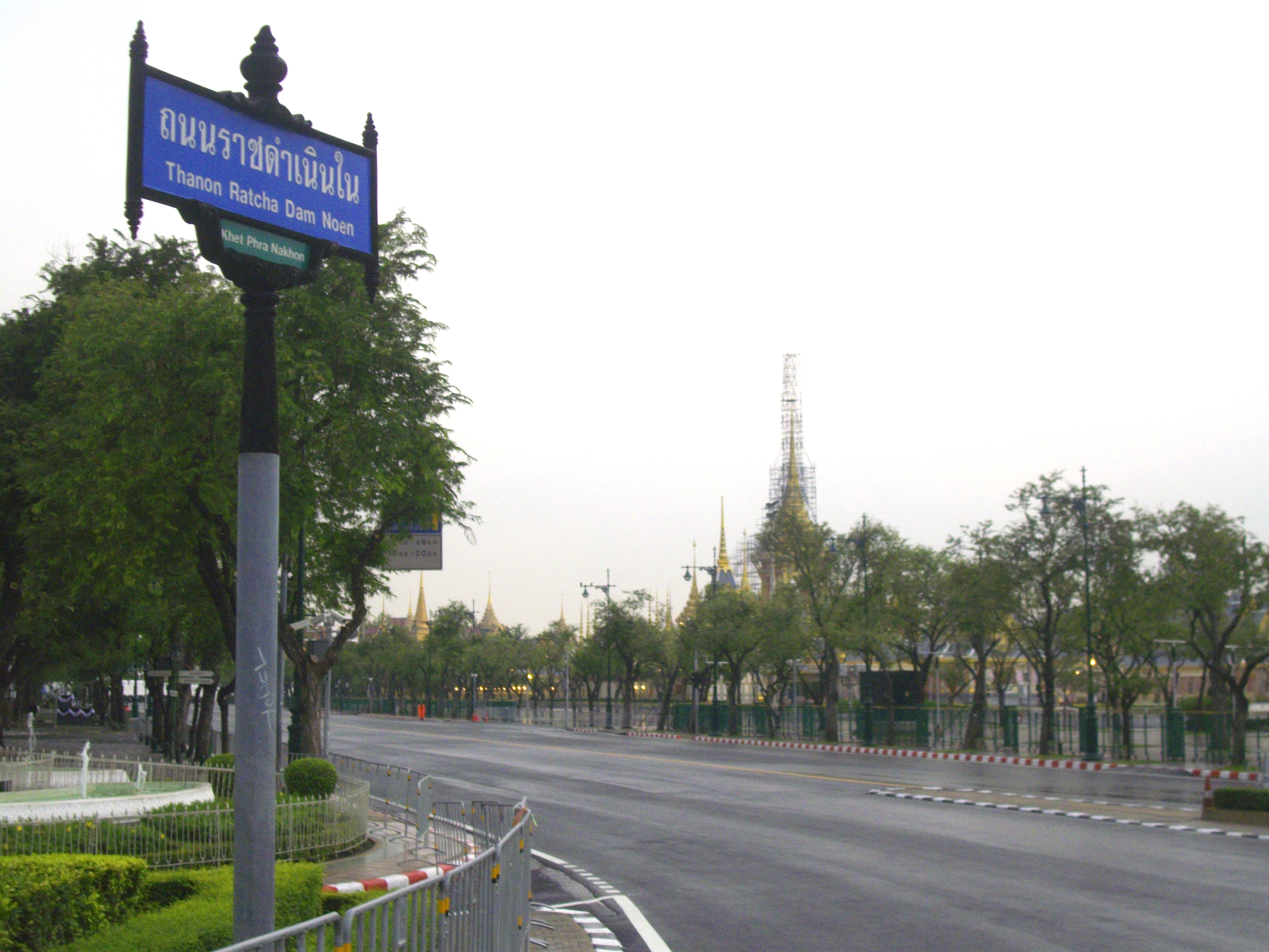 Royal crematorium of Bhumibol Adulyadej, as seen on October 09, 2017.